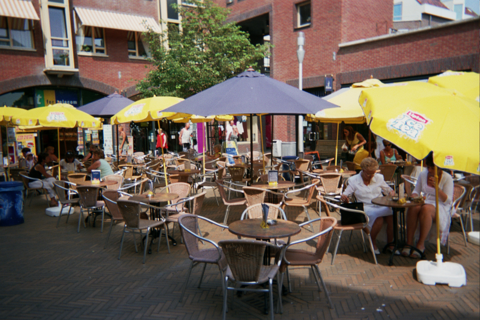 Café seating on the Emmaplein in Katwijk, South Holland.